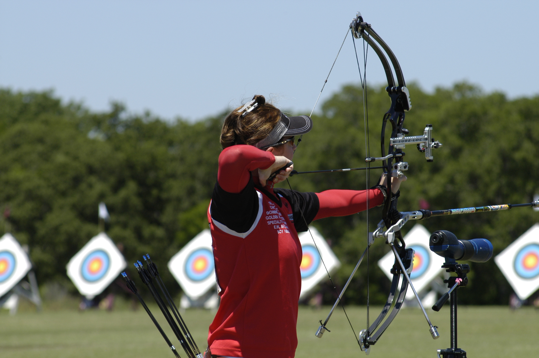 Erika Aya Eiffel shooting for gold 2006 Texas Shootout champion.